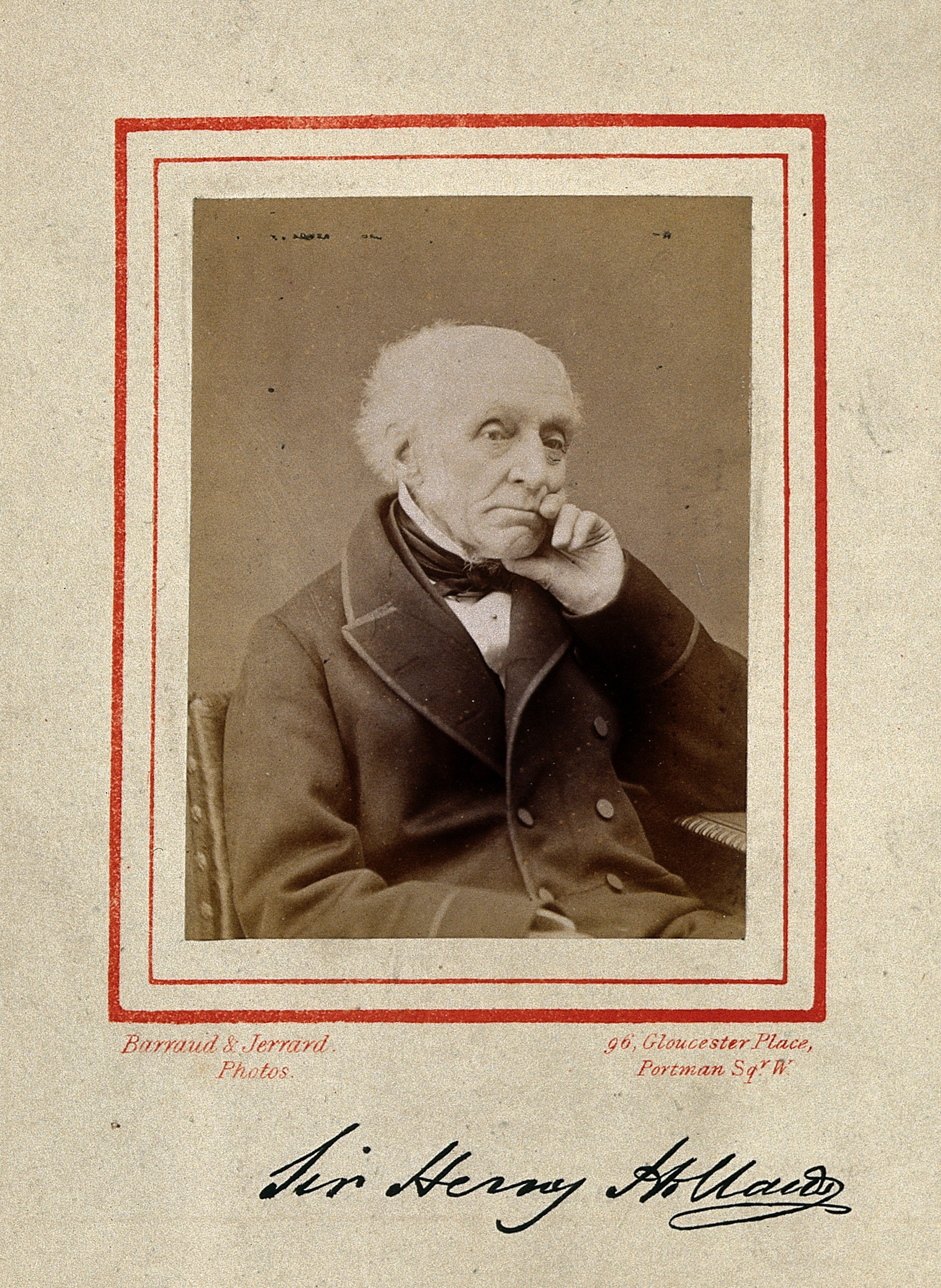 Sir Henry Holland. Photograph by Barraud & Jerrard, 1873. Iconographic Collections Keywords: portrait photographs